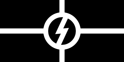 Sowilo rune on flag of the youth organisation of the German American Bund (1936 - 1941)